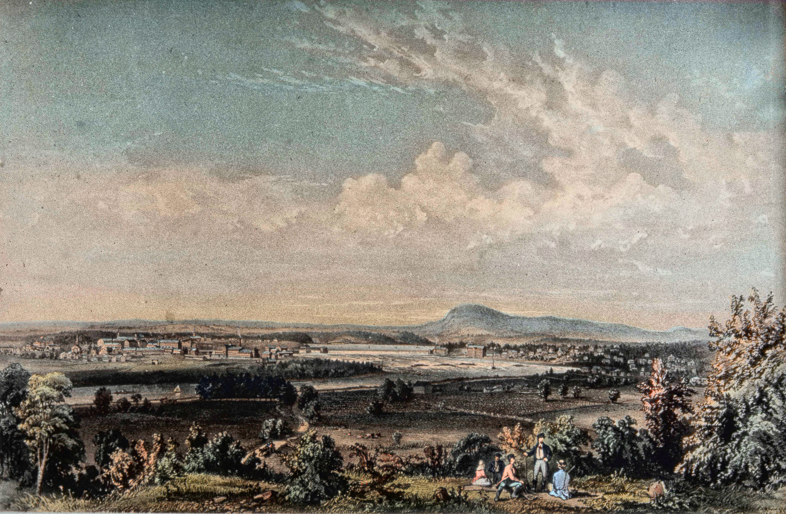 A scene of Holyoke and South Hadley Falls seen from Chicopee, looking out on the second Holyoke Dam, as well as Mount Tom